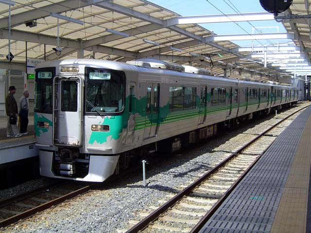 Aichi Loop Line Company 2000 series train at Yakusa (then Bampaku-Yakusa) Station.